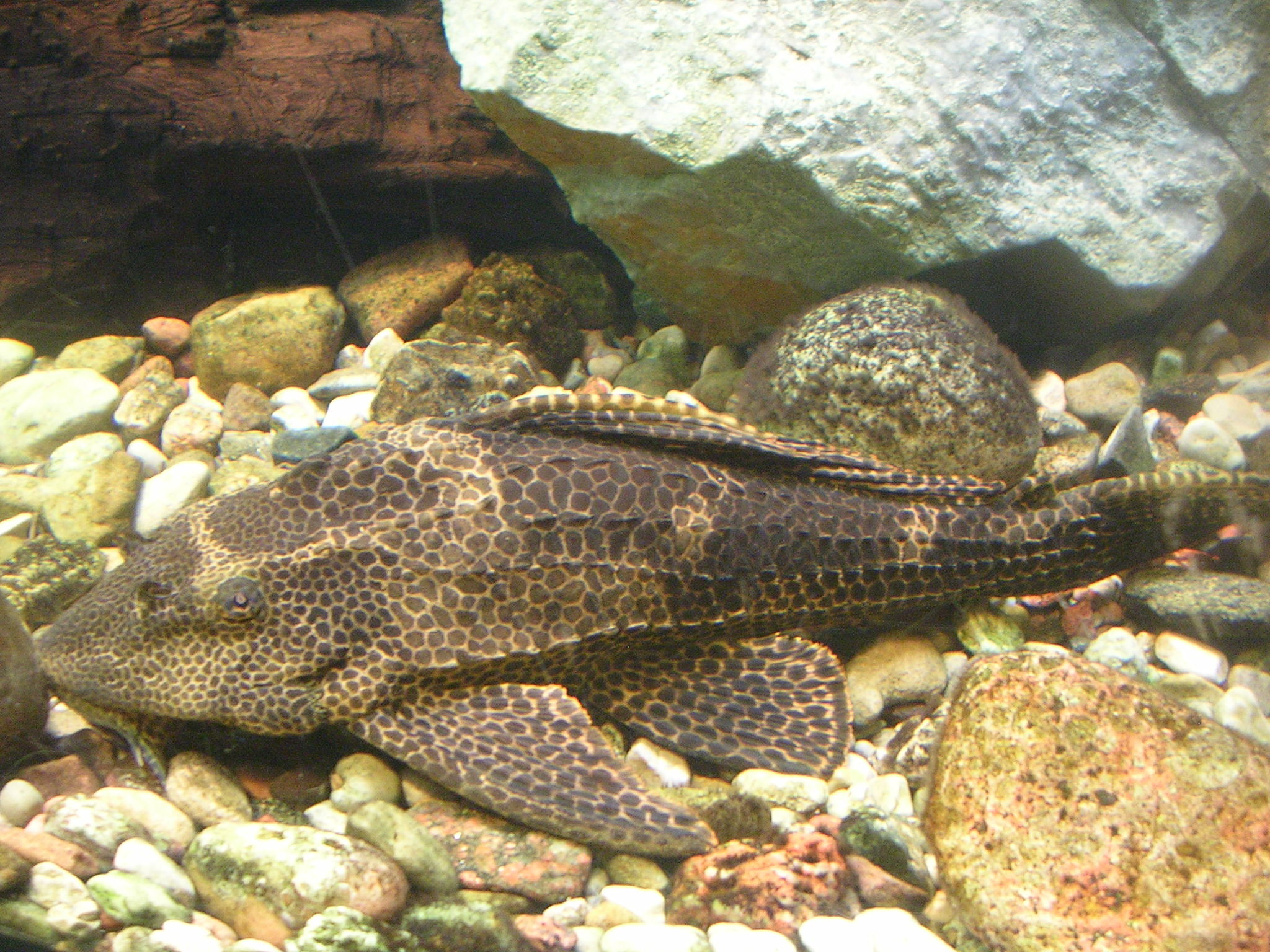 Glonojad in ZOO in Łódź. (Pterygoplichthys gibbiceps)